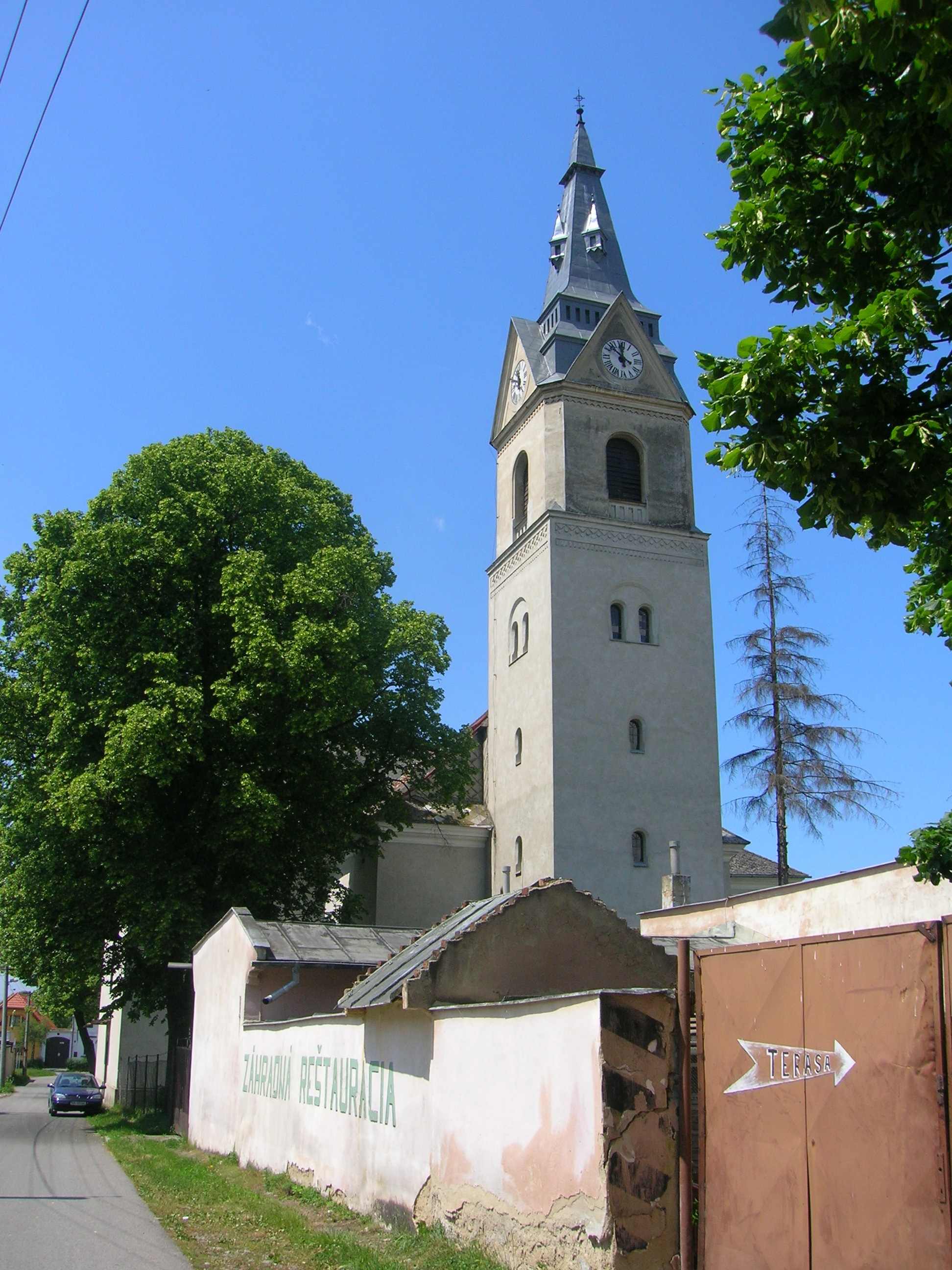 Evangelic (lutheran) church in Velky Lomnica, Slowakei.